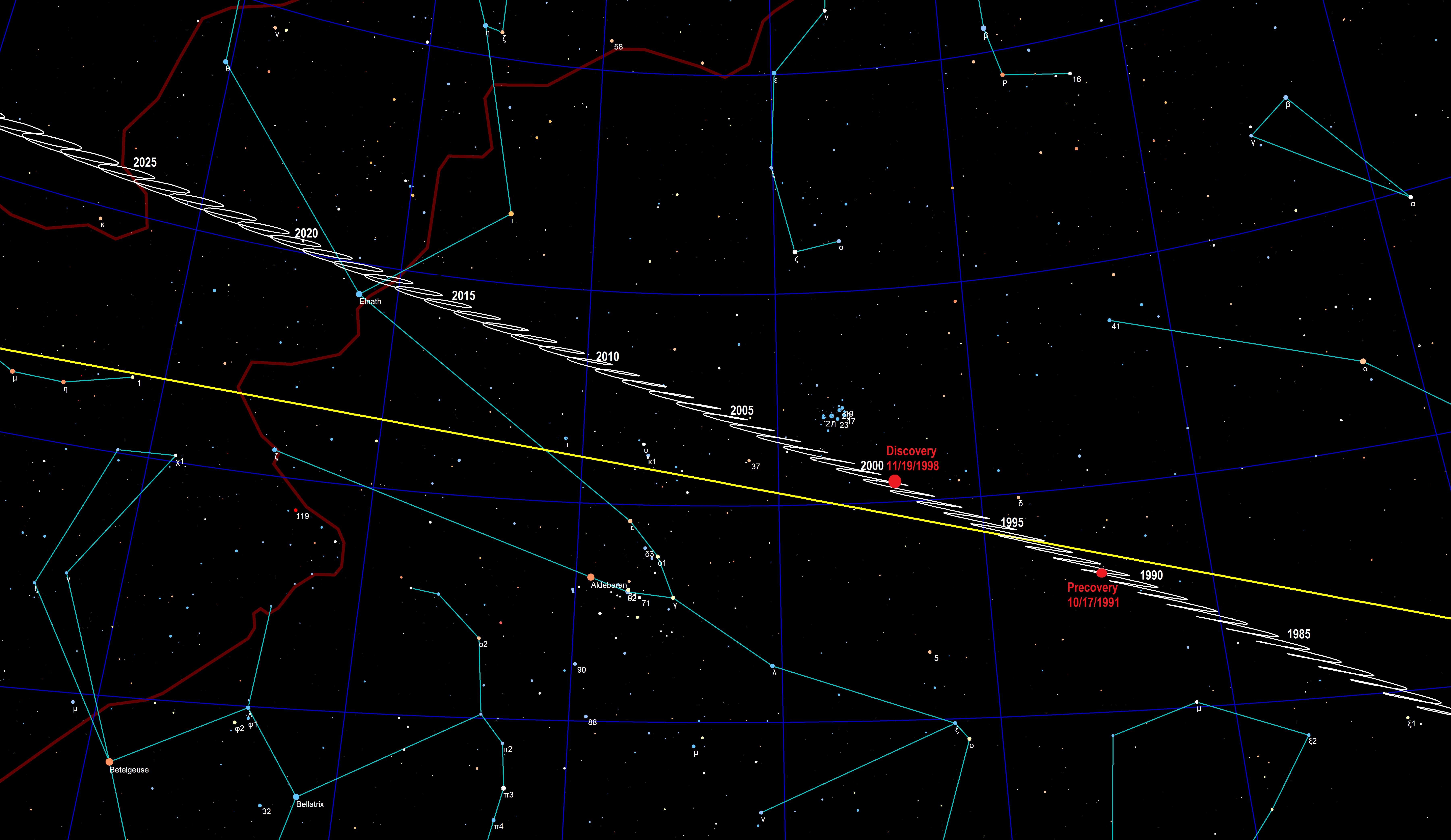 en:19521_Chaos